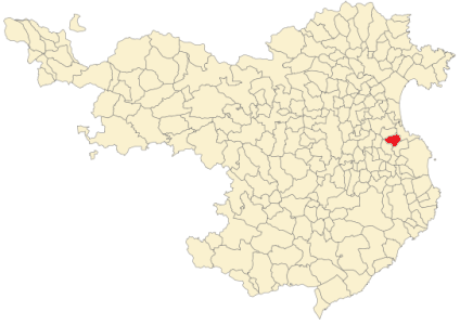 Albons